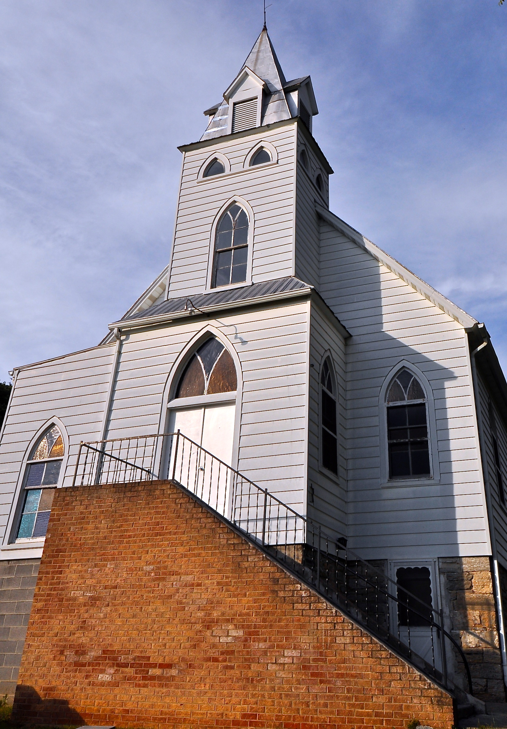 Big Spring Baptist Church, VA 631, 0.1 miles (0.16 km) east of US 460/11 Elliston